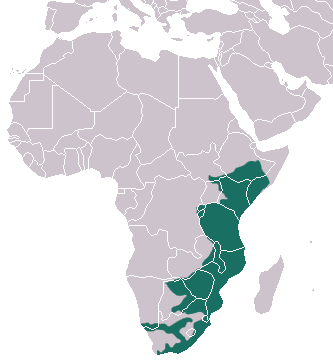 Vervet Monkey (Chlorocebus pygerythrus) range